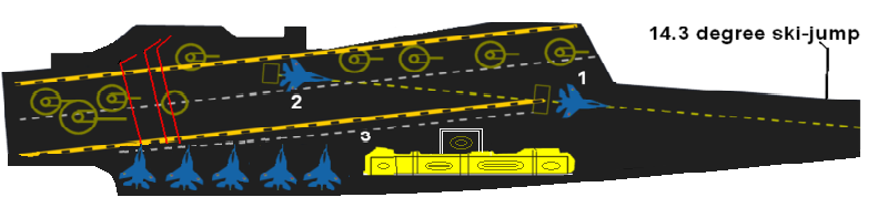 Diagram of INS Vikramaditya.INS Vikramaditya is a modified former Soviet aircraft carrier Admiral Gorshkov, which has been procured by India.